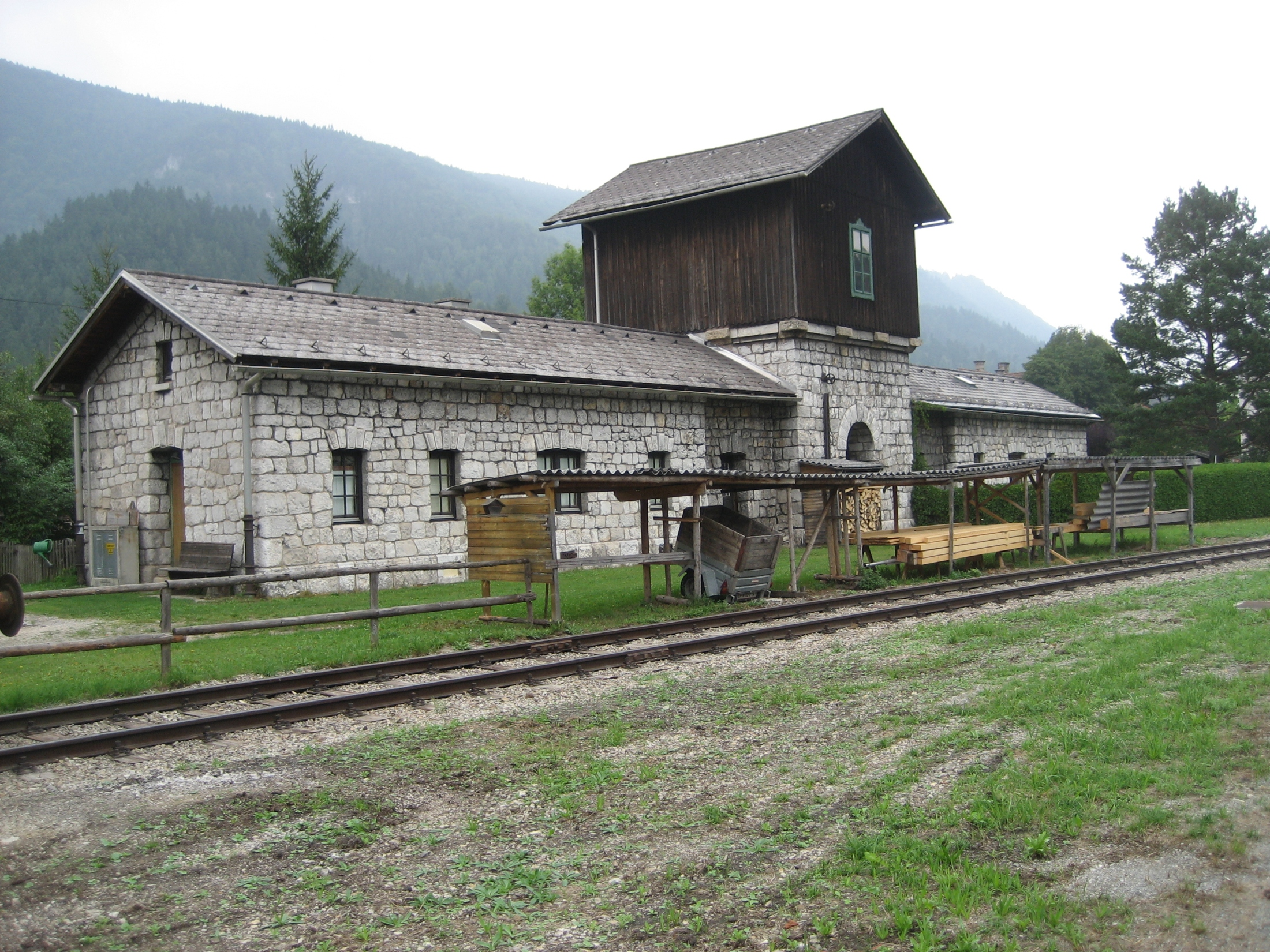 St. Aegyd am Neuwalde train station in Lower Austria